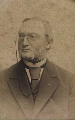 Danish lawyer and politician, MP Carl Christian Vilhelm Liebe (1820-1900)